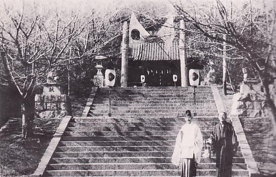 Masan Shrine